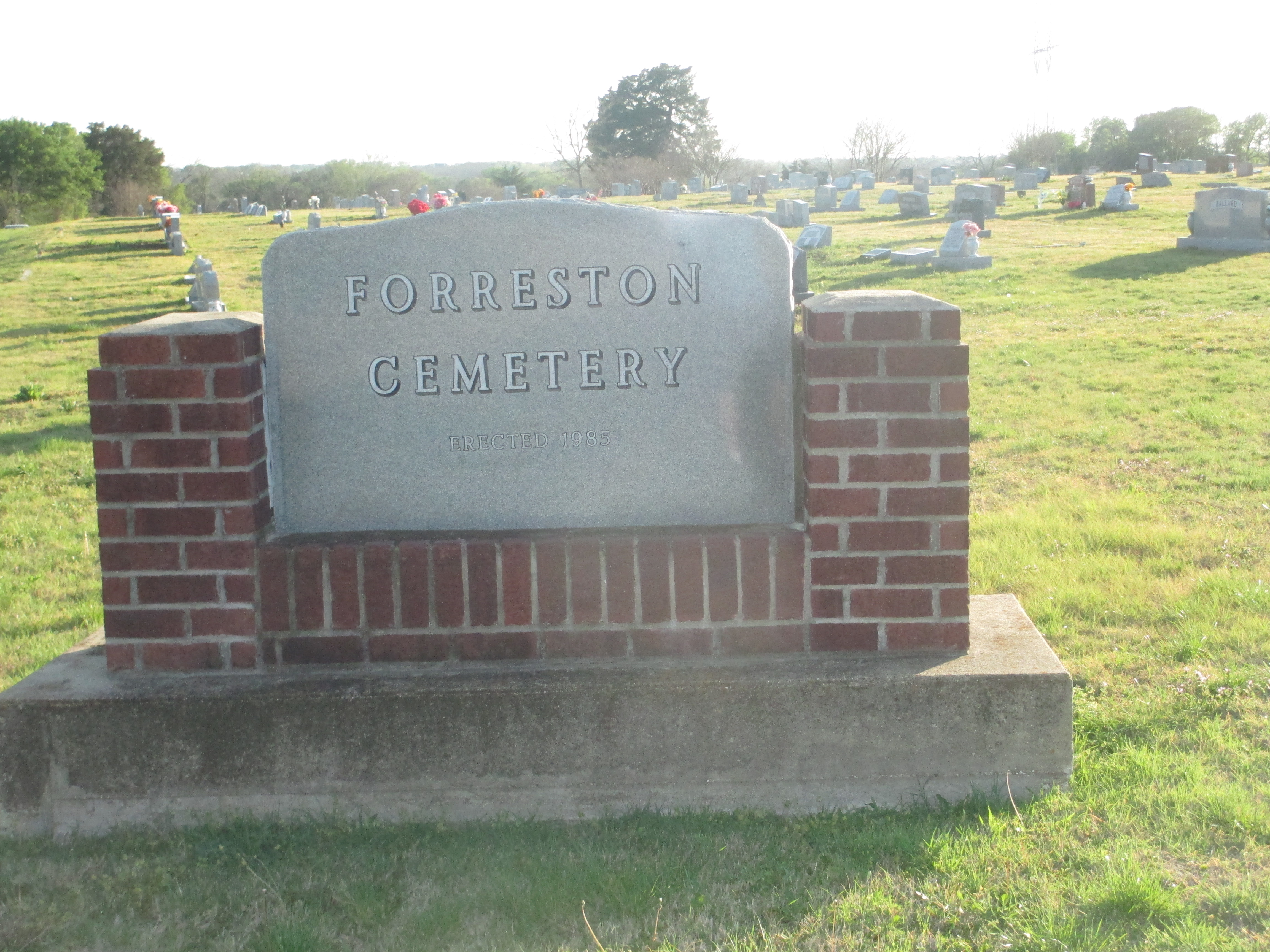 I took photo of Forreston Cemetery in Forreston, TX, with Canon camera, March 31, 2013. Billy Hathorn (talk) 15:05, 12 April 2013 (UTC)